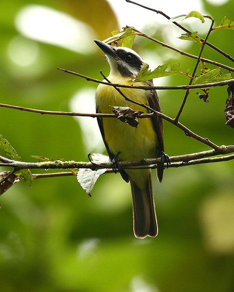 Golden-bellied Flycatcher (Myiodynastes hemichrysus) at Virgen del Socorro, Costa Rica, Caribbean foothills.